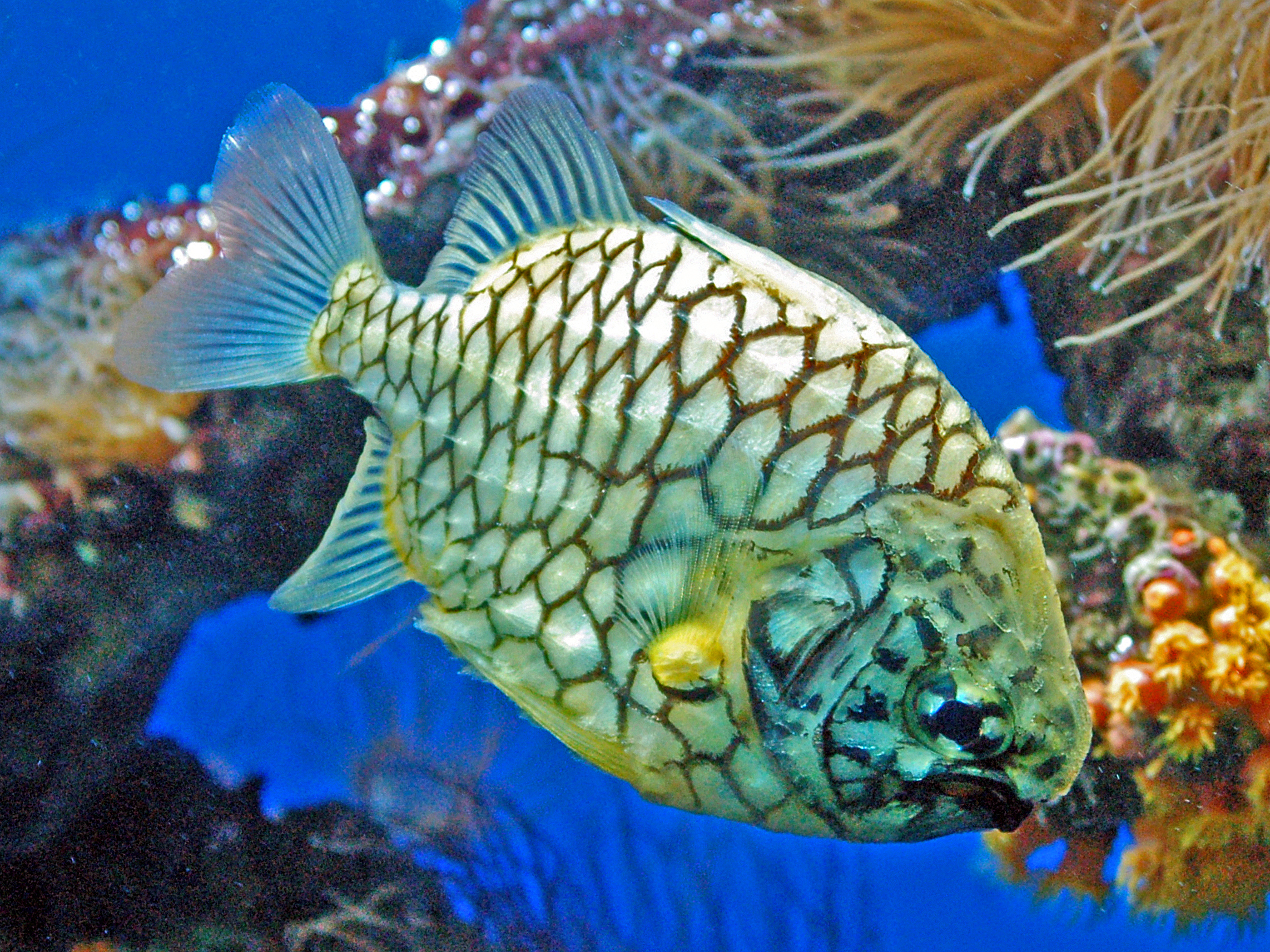 "Cleidopus gloriamaris" at Monaco Aquarium